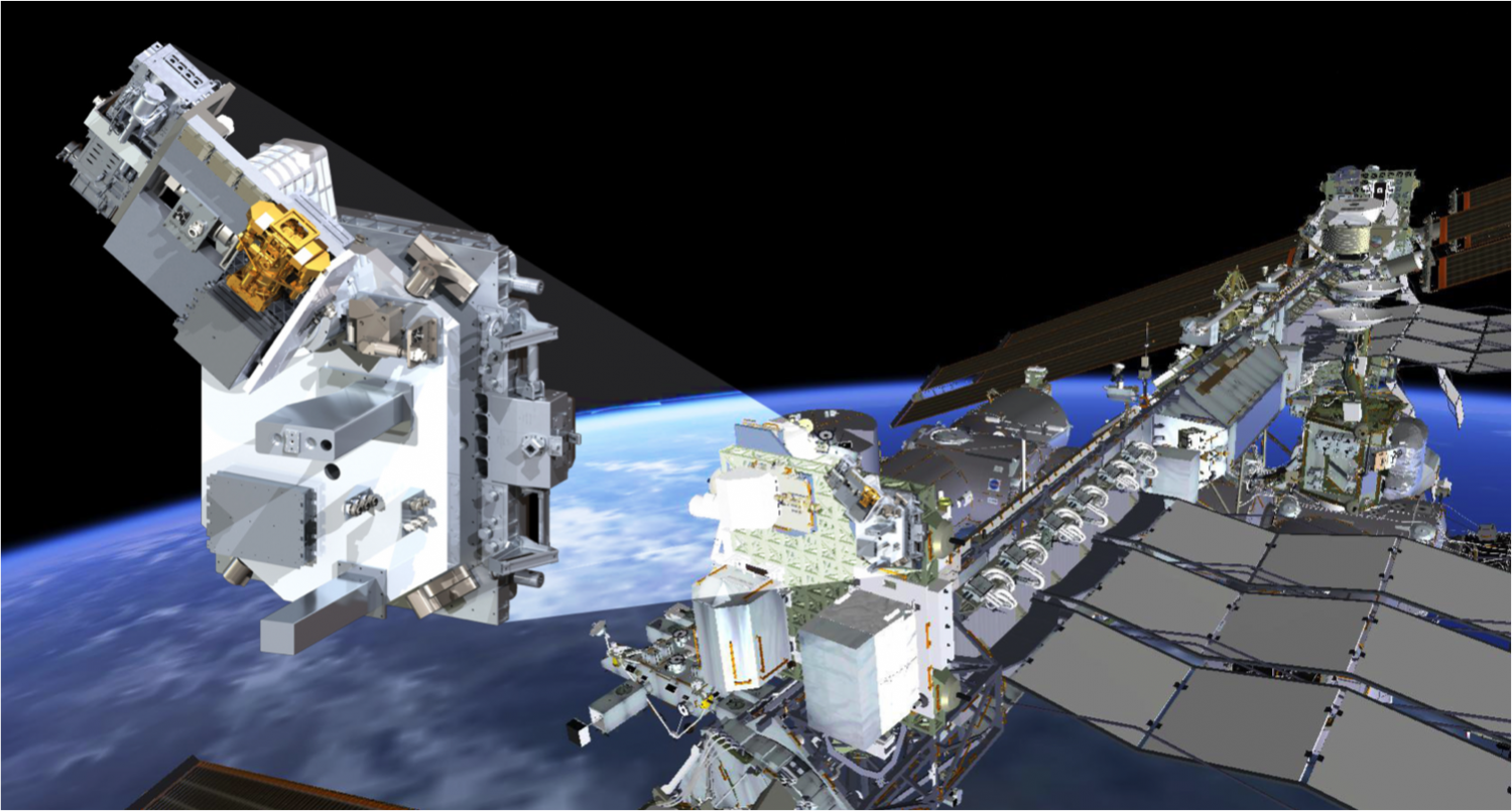 International space station - Instrument TSIS artist's view